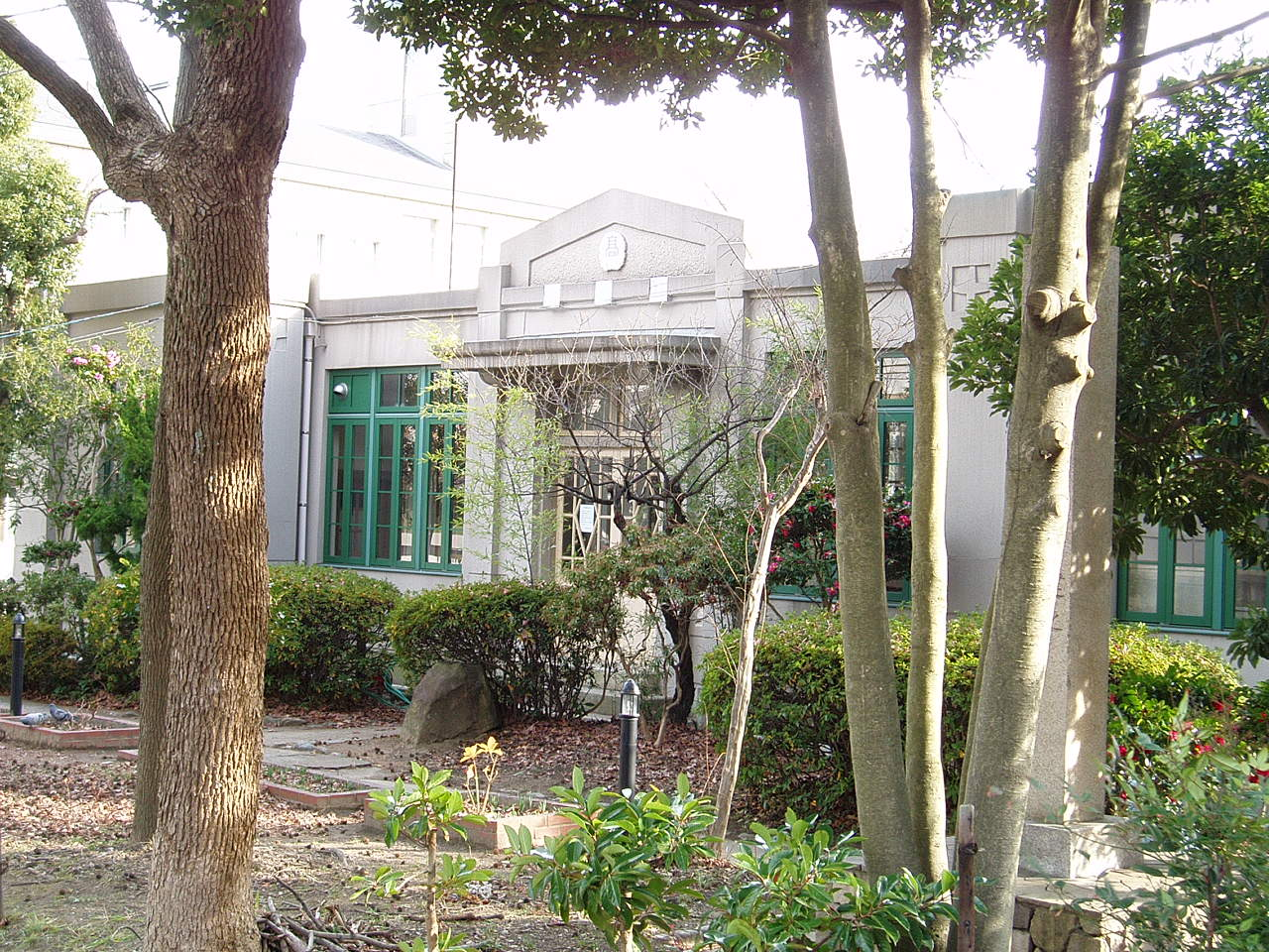 Shimbu Hall, the former library of Nagata High School, built in 1923.